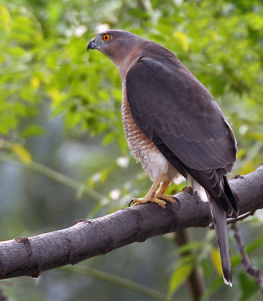 ShikraAccipiter badius at Roorkee, in Haridwar, District of Uttarakhand, India.